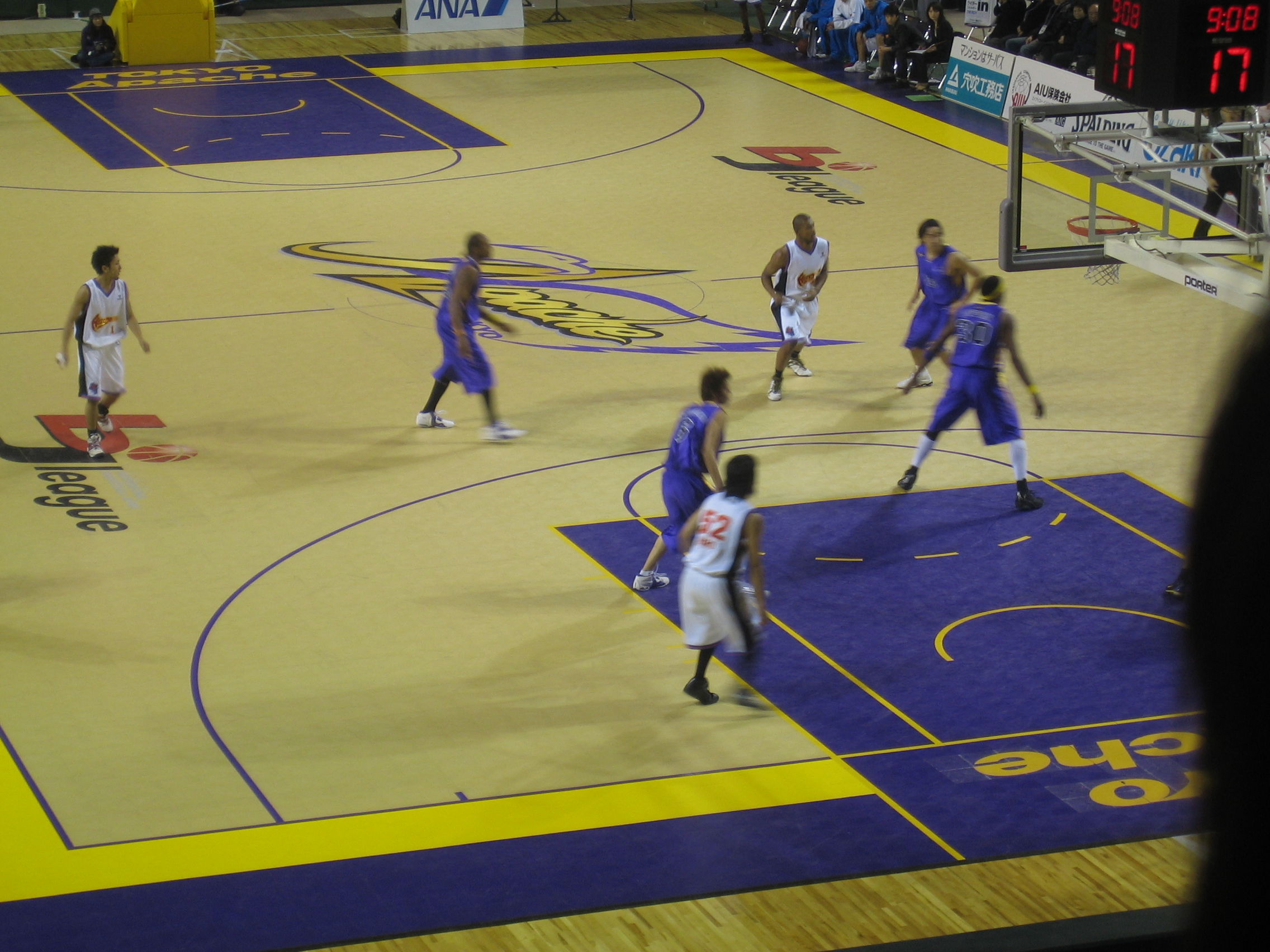 Apache vs. Oita3